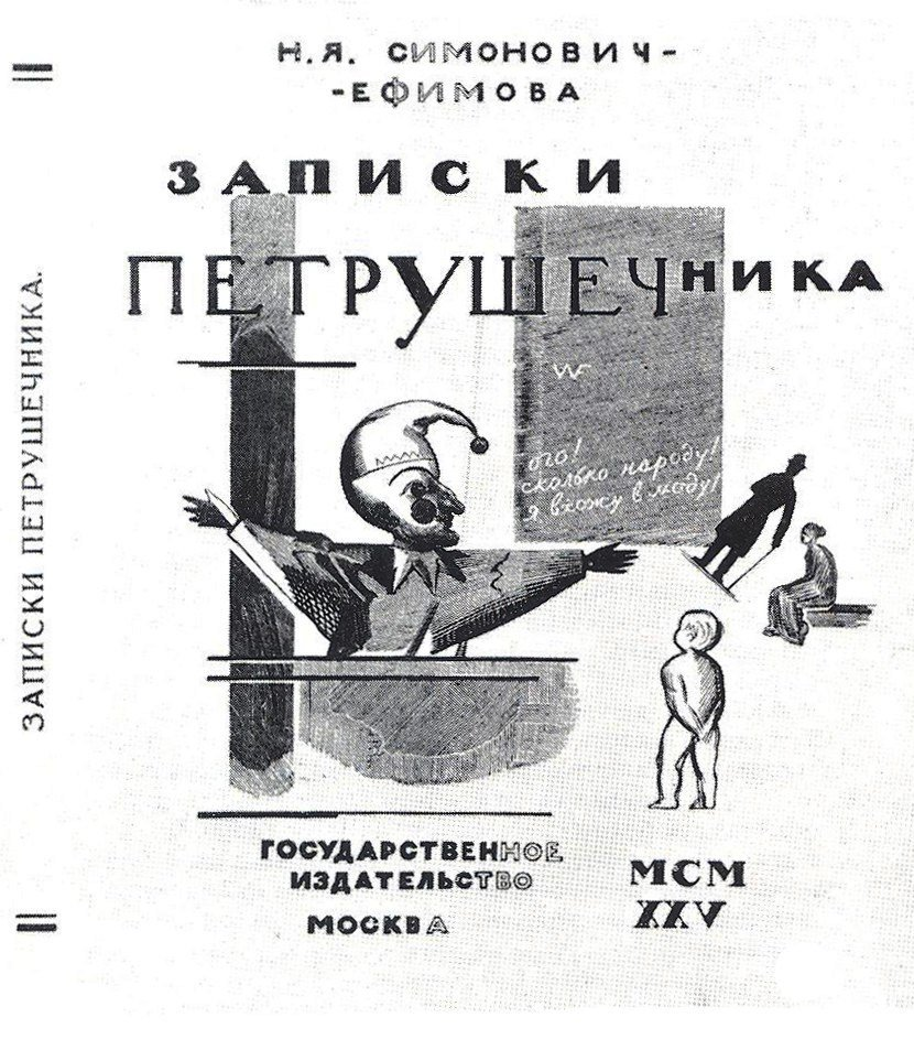 Book cover of "Записки петрушечника" (Notes of a Petrushkanist) by Nina Simonovich-Efimova illustrated by V.A. Favorsky